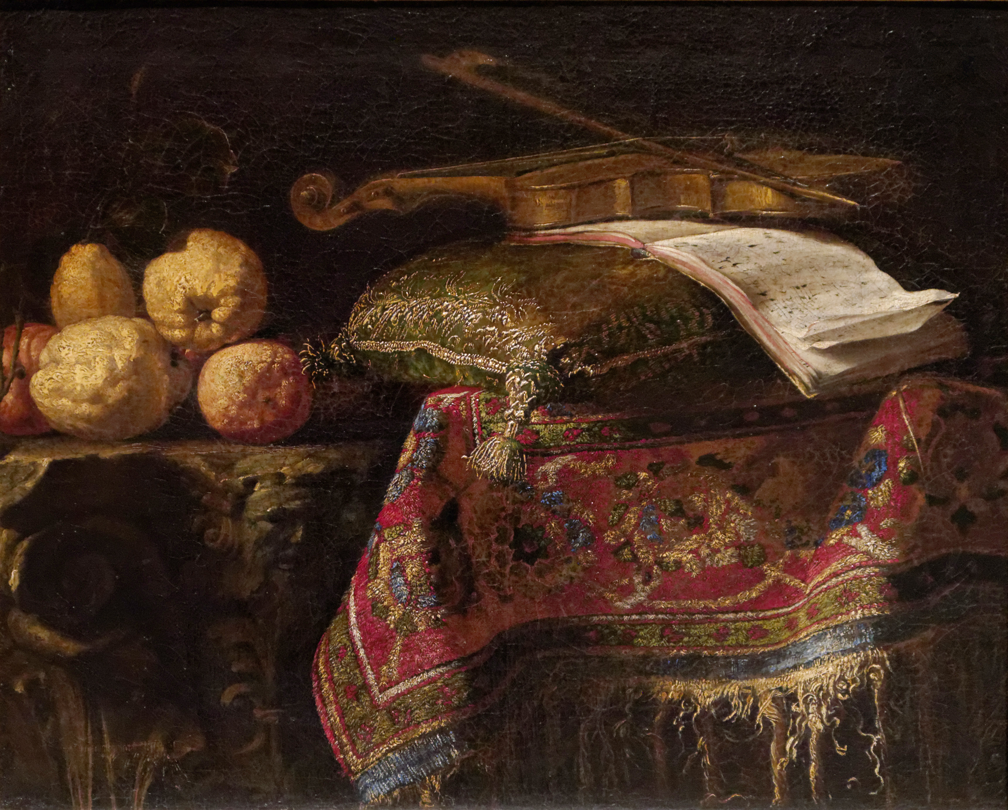 Still-Life: Citron Trees and Violin - Francesco Noletti - MI 891